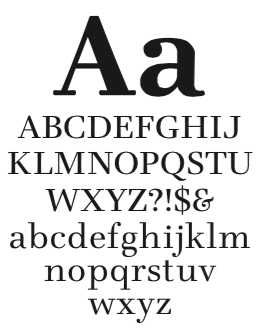 Teimer’s antiqua (1967–68) digitized by Tomáš Brousil as Teimer (2006)